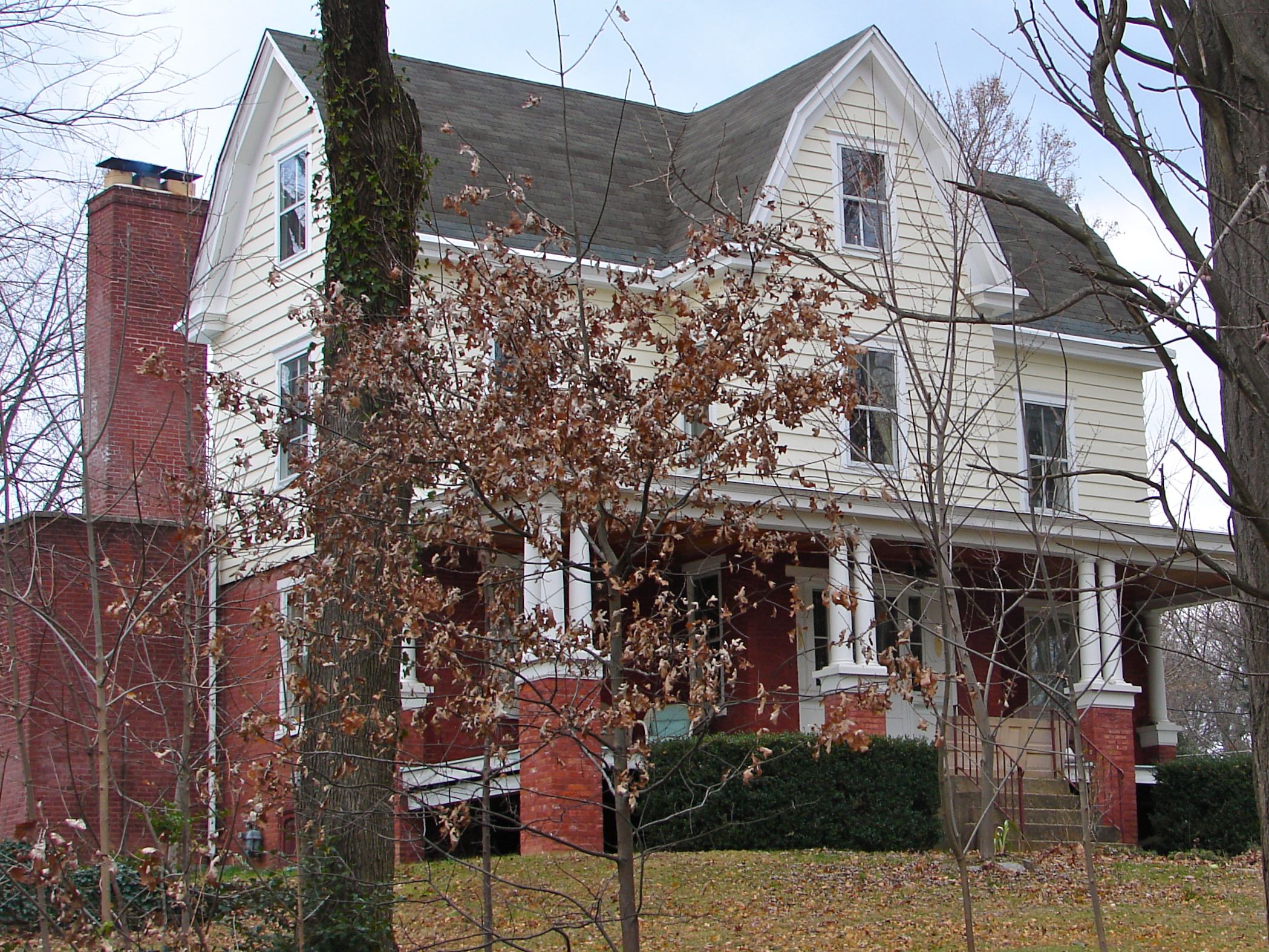 Rosemont, a house in Delaware, on the NRHP since February 27, 2009. At 15½ Cragmere Road (north of ) Wilmington, Delaware.